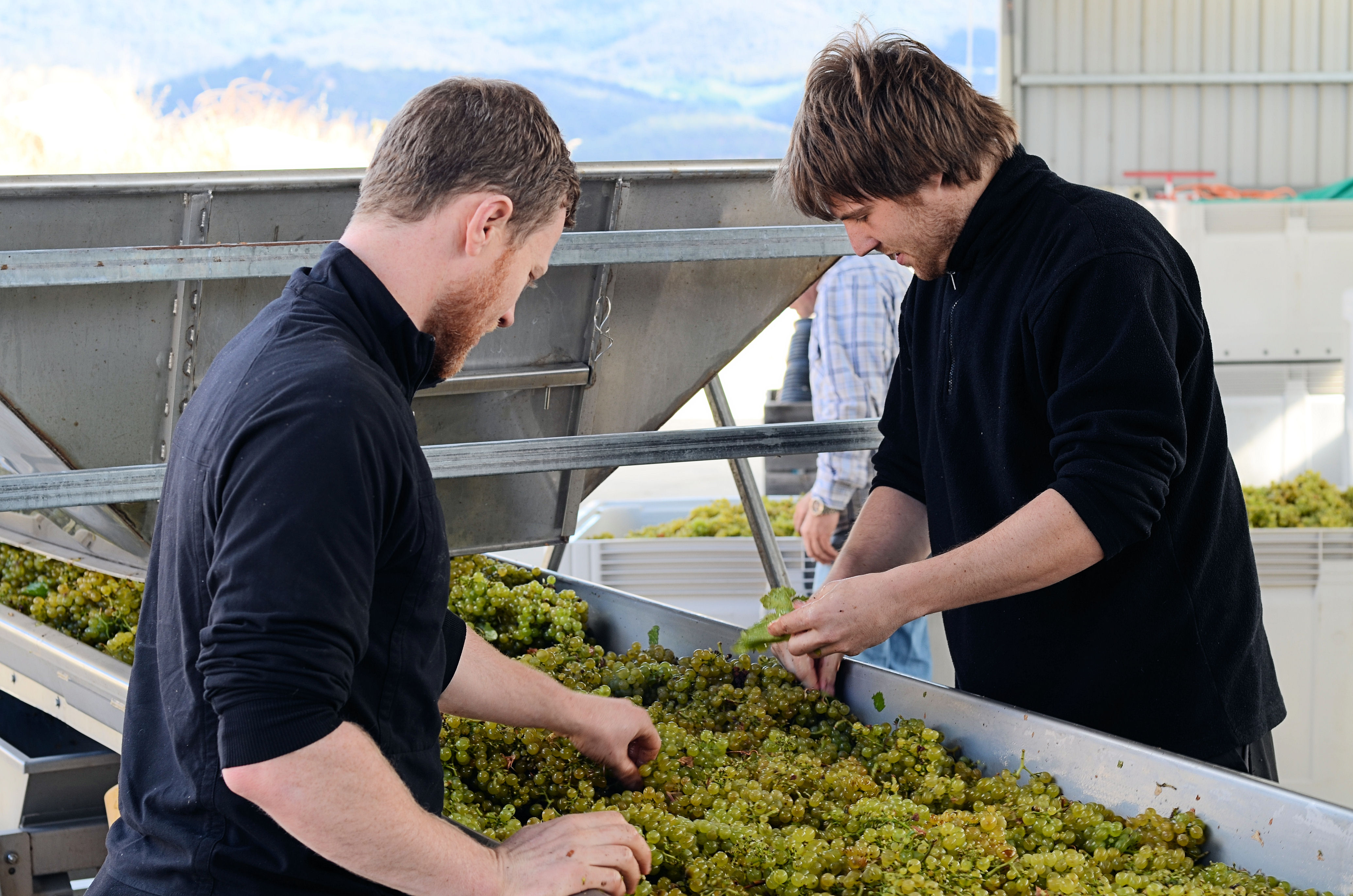 Chardonnay grapes being sorted to remove MOG (Material Other than Grapes--leaves, rocks, bugs, etc) Taken at Granton Vineyard in southern Tasmania